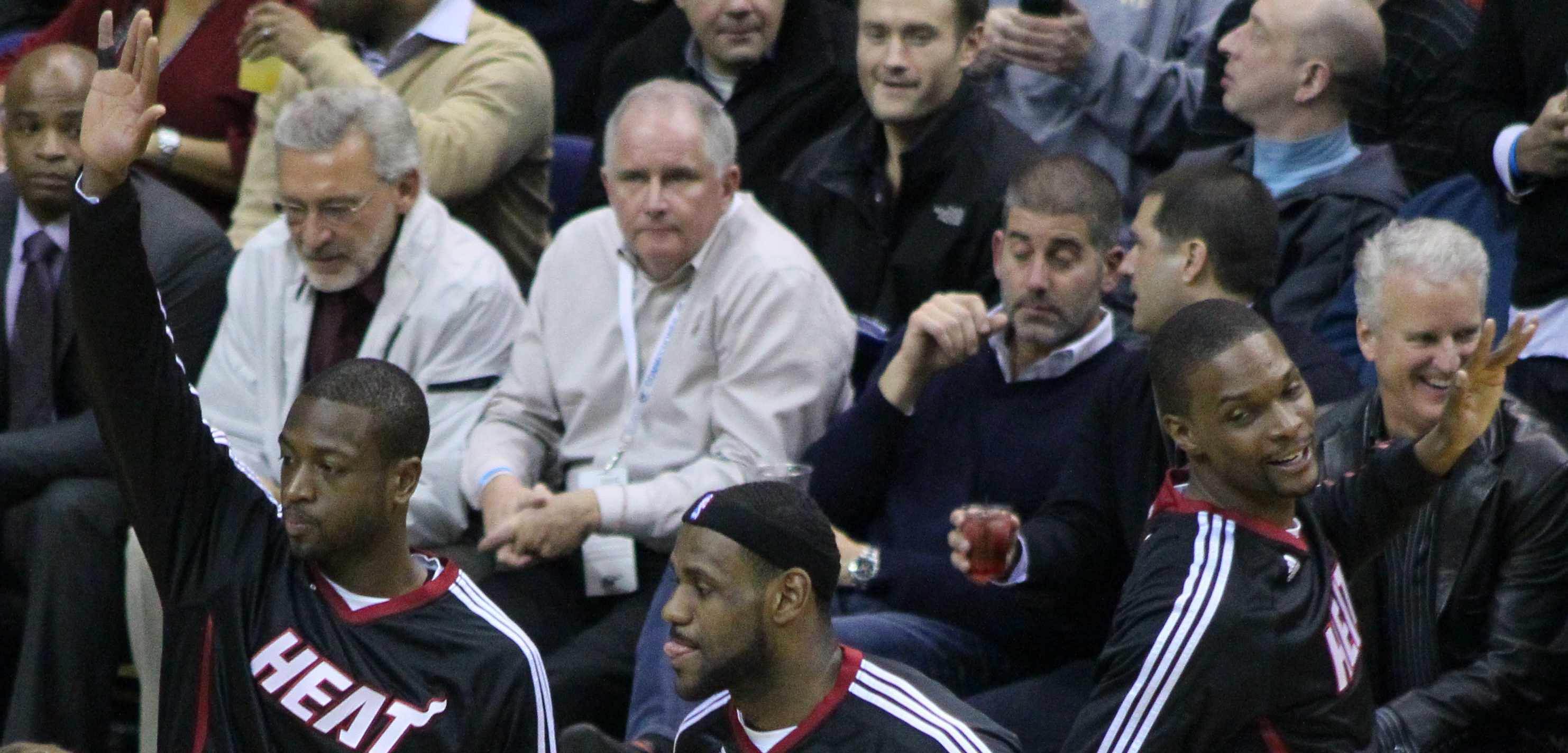 Washington Wizards v/s Miami Heat December 18, 2010